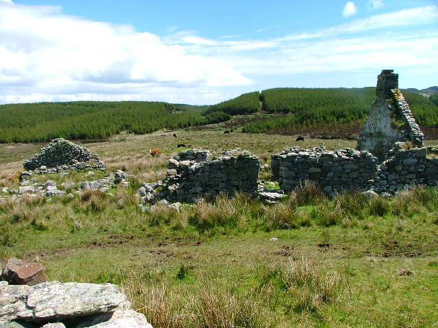 Frachdale. Disused crofting cottage with modern coniferous plantation in the distance.